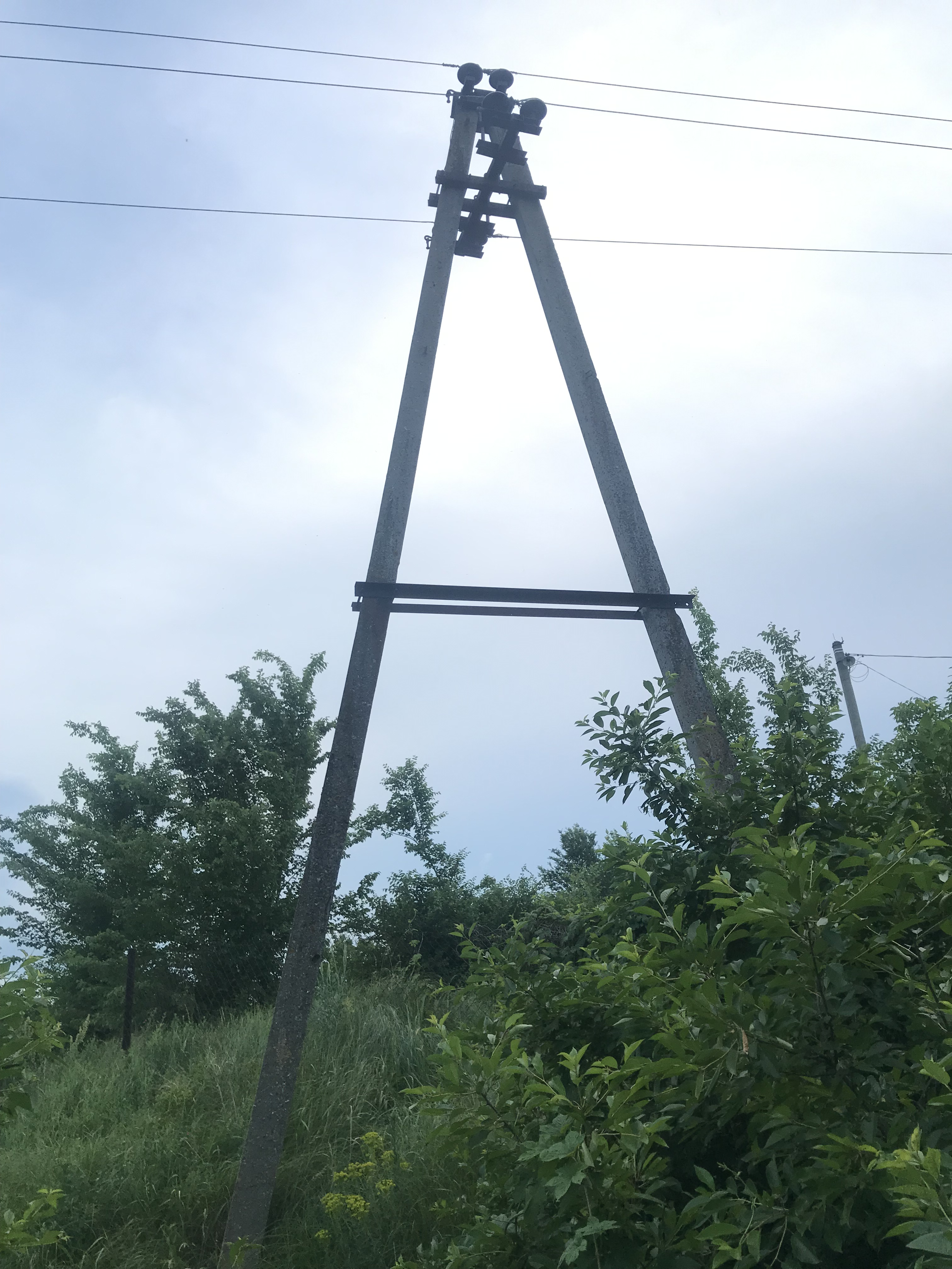 One of the electric power lines in Zelenyi Hai near Sukhy Bychok river, Ukraine.